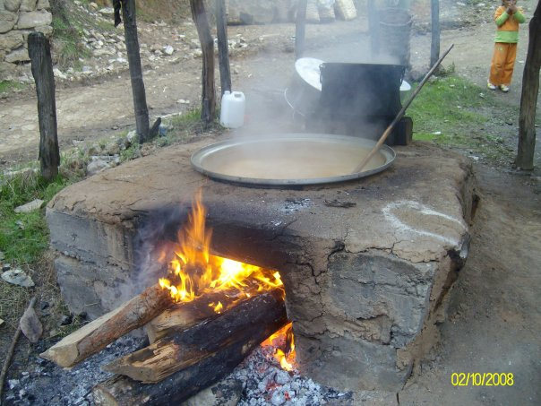 Pekmez